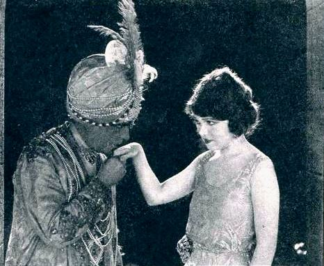 Still from The Man from Downing Street (1922) with Earle Williams (disguised as a Rajah) and Betty Ross Clarke, on page 53 of the May 1922 Fun Films.